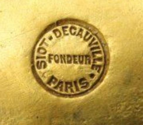 Foundry stamp Fondeur Siot-Decauville, Paris